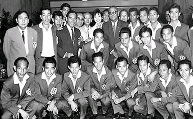 Members of the Republic of Vietnam won the gold medal at SEAP Games in 1959 in Bangkok, Thailand.